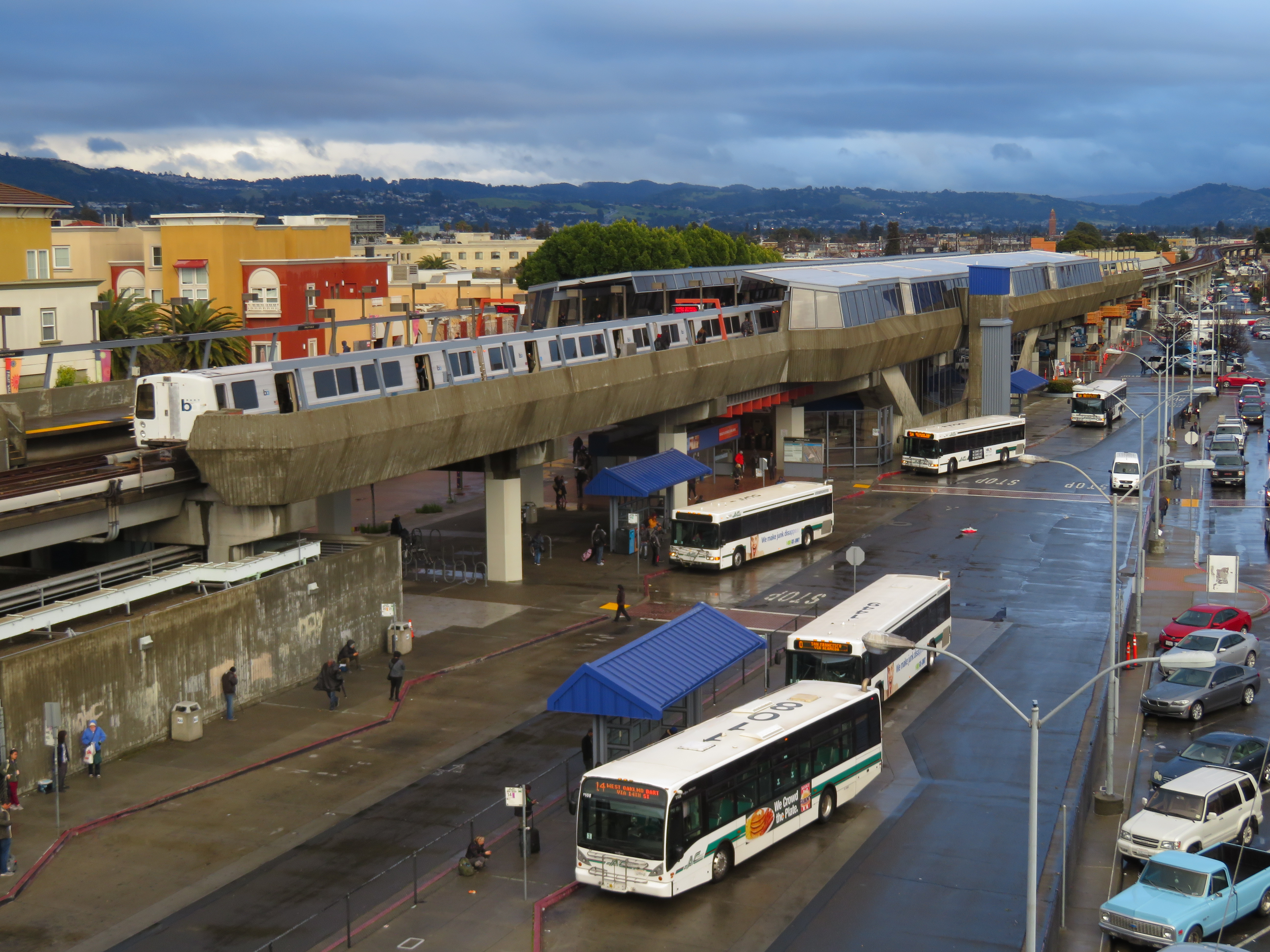 Fruitvale station and busway in March 2018